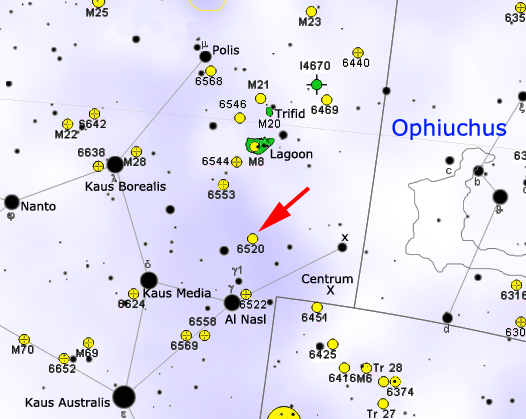 Map of NGC 6520